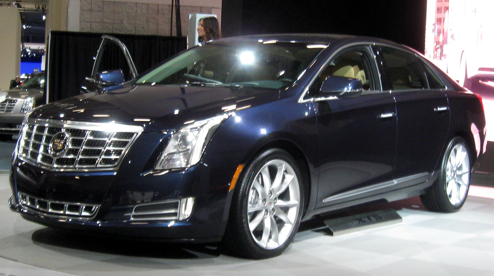 2013 Cadillac XTS photographed in Washington, D.C., USA.